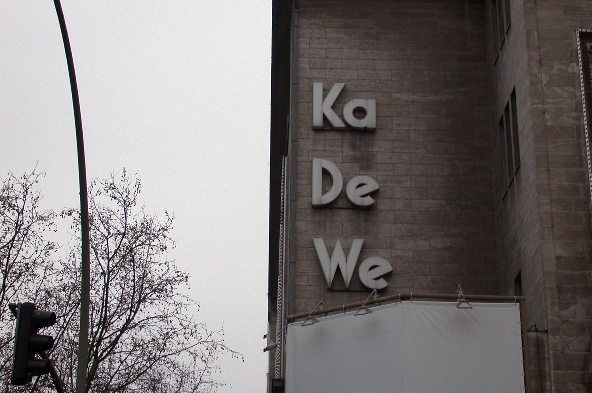 The Sign KaDeWe of the Kaufhaus des Westens in Berlin